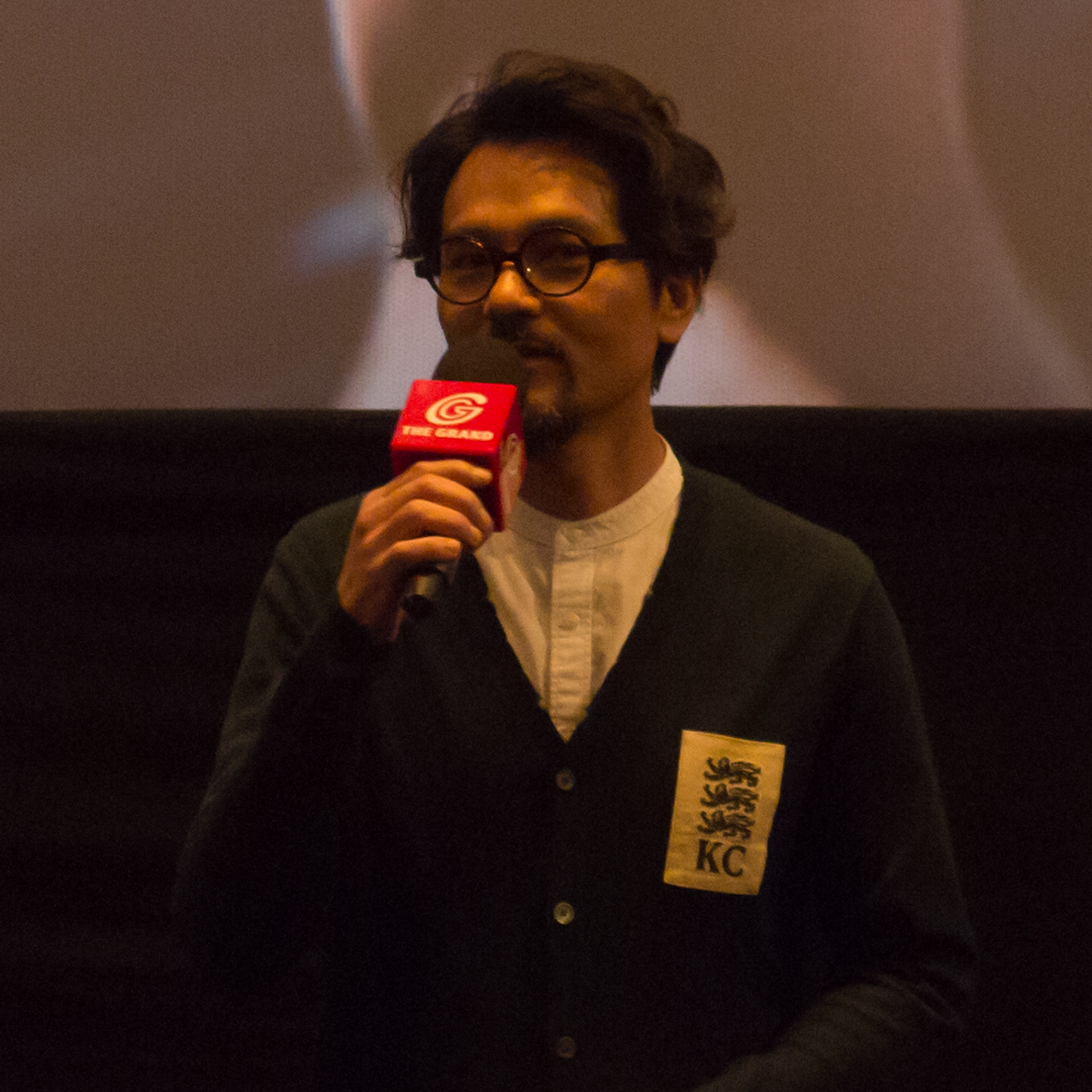 Gordon Lam 2017-08-15 HKIFF SUMMER 2017